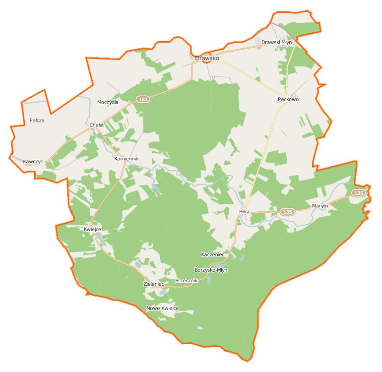 Map of Gmina Drawsko, Poland This map of Drawsko (gmina) was created from OpenStreetMap project data, collected by the community. This map may be incomplete, and may contain errors. Don't rely solely on it for navigation. Border coordinates52.878715.8879←↕→16.152352.7226